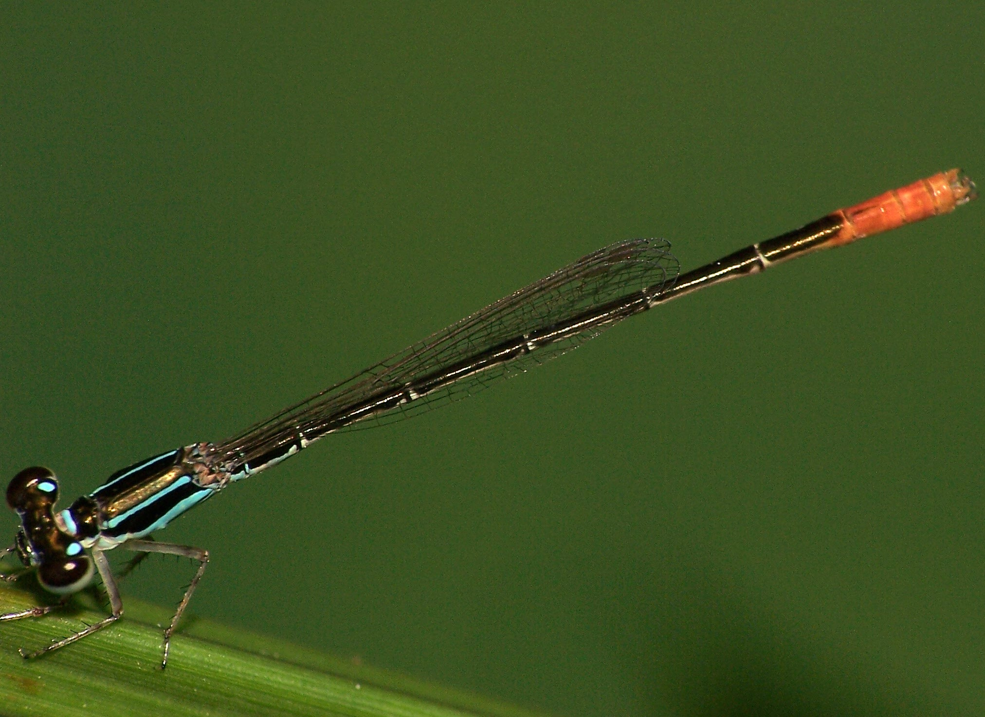 Agriocnemis femina, saw at forest area, the smallest damselfly I've ever seen.